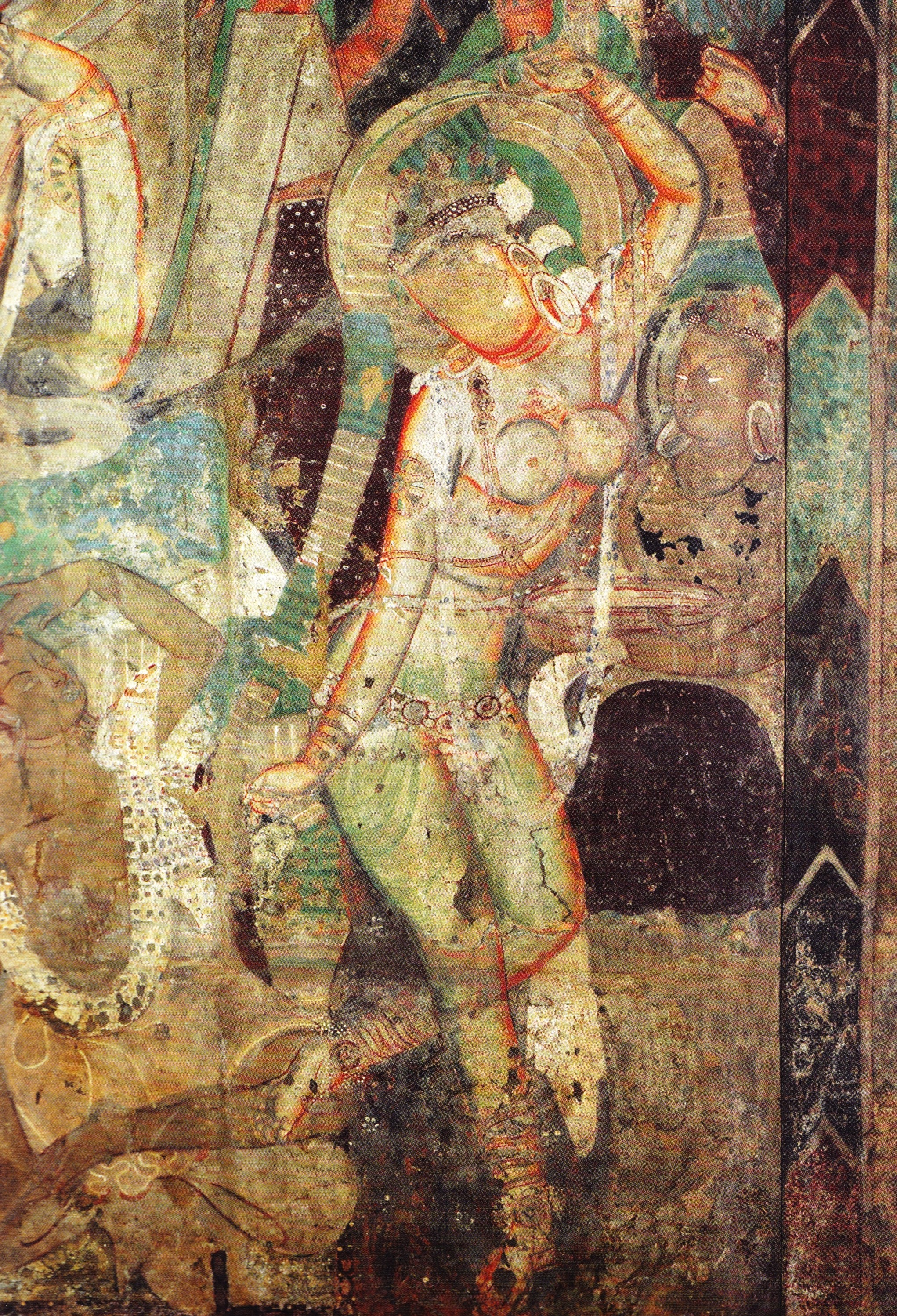 Dance of princess Chandraprabha, mural in Cave 83, Kizil. Museum für Indische Kunst, Berlin.